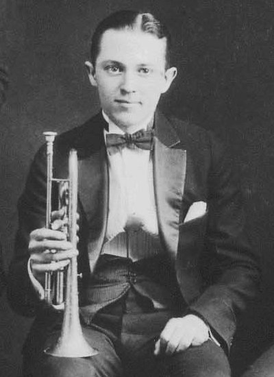 Bix Beiderbecke at Doyle's Academy of Music in Cincinnati, Ohio.